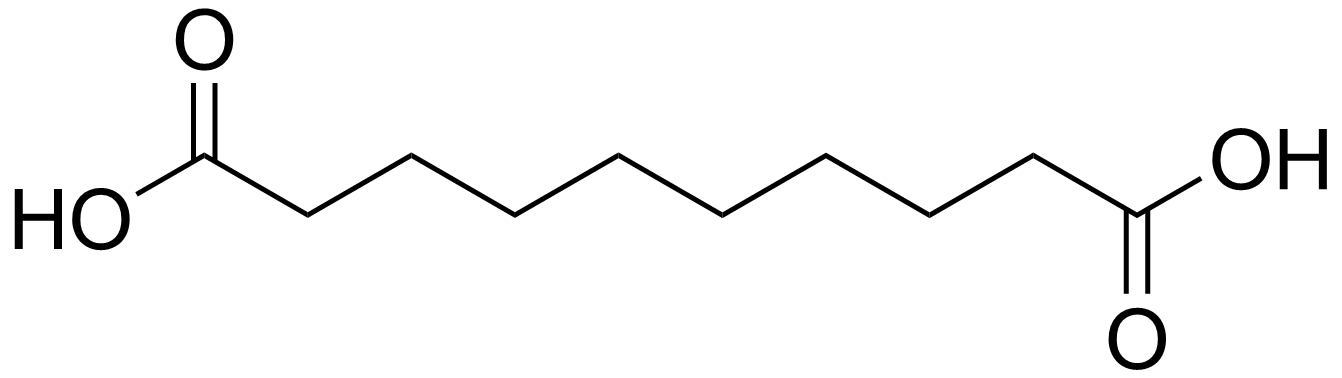 Chemical structure of sebacic acid created with ChemDraw.